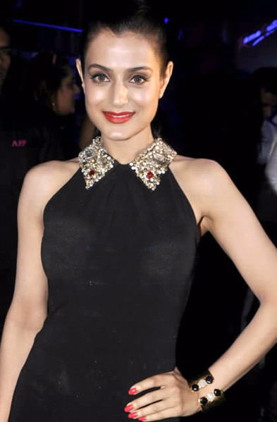 Ameesha Patel unveils latest issue of Maxim